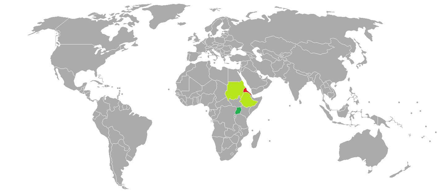 Visa policy of Eritrea Eritrea Visa not required Visa on arrival Visa required